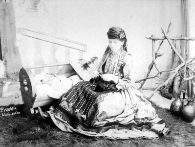 Α Manakis brothers picture of the beginning of the 20th Century: Woman of Kleisoura, Kastoria knotting in frond of her baby. Original Picture at Museum of the Romanian Peasant, Bucharest